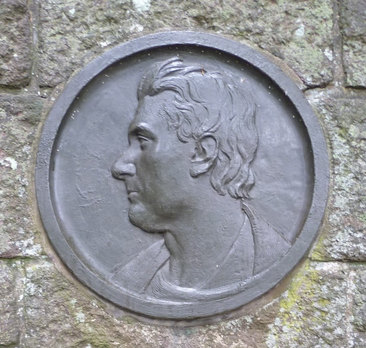 Bronze medallion portrait incorporated in the John Rennie Memorial at his birthplace Phantassie, East Linton